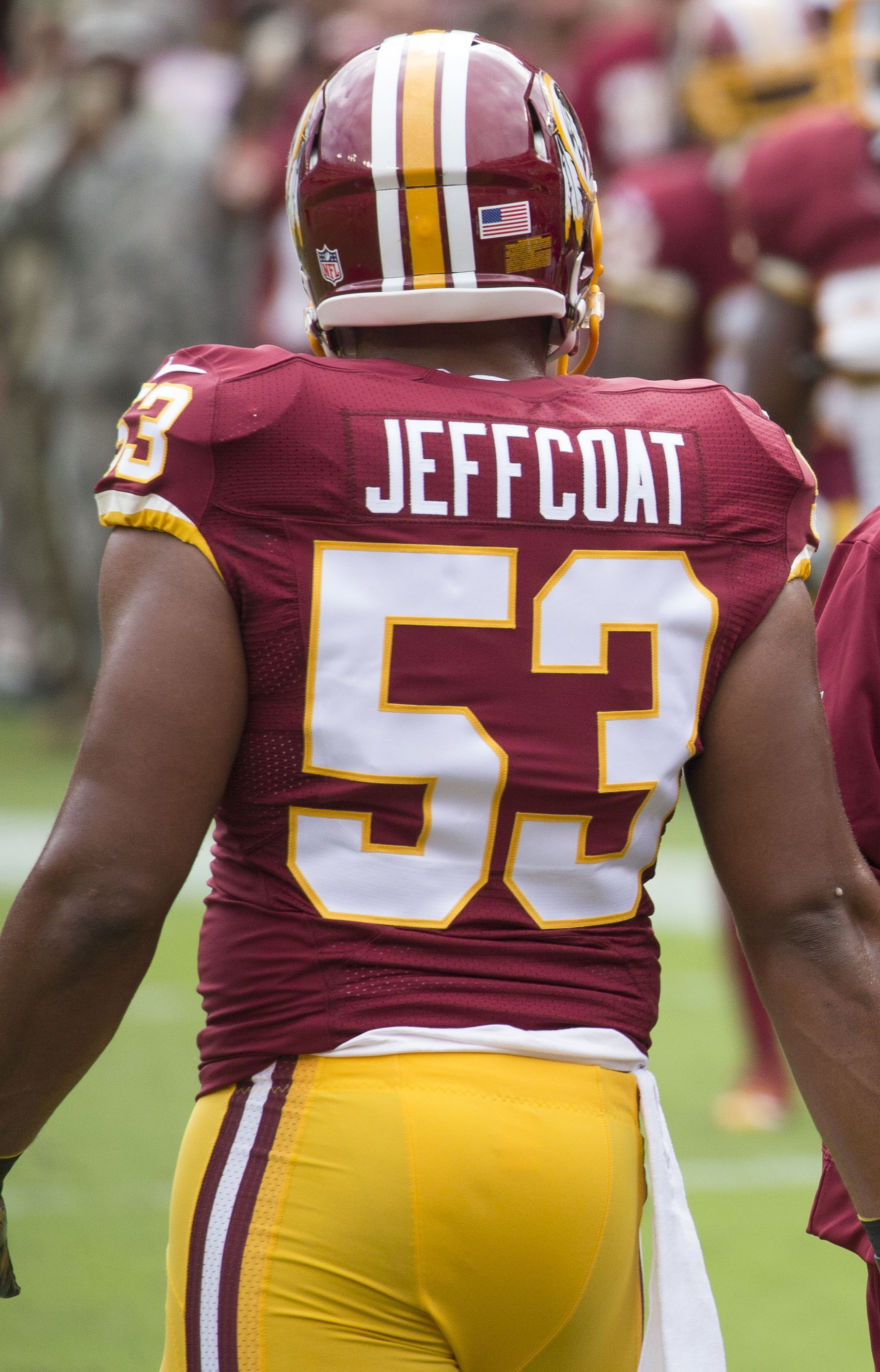 Rams at Redskins 9/20/15